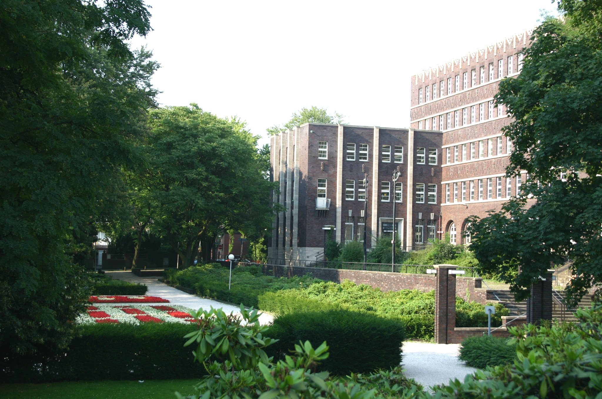 Oberhausen (Germany): Town hall with Grillo park